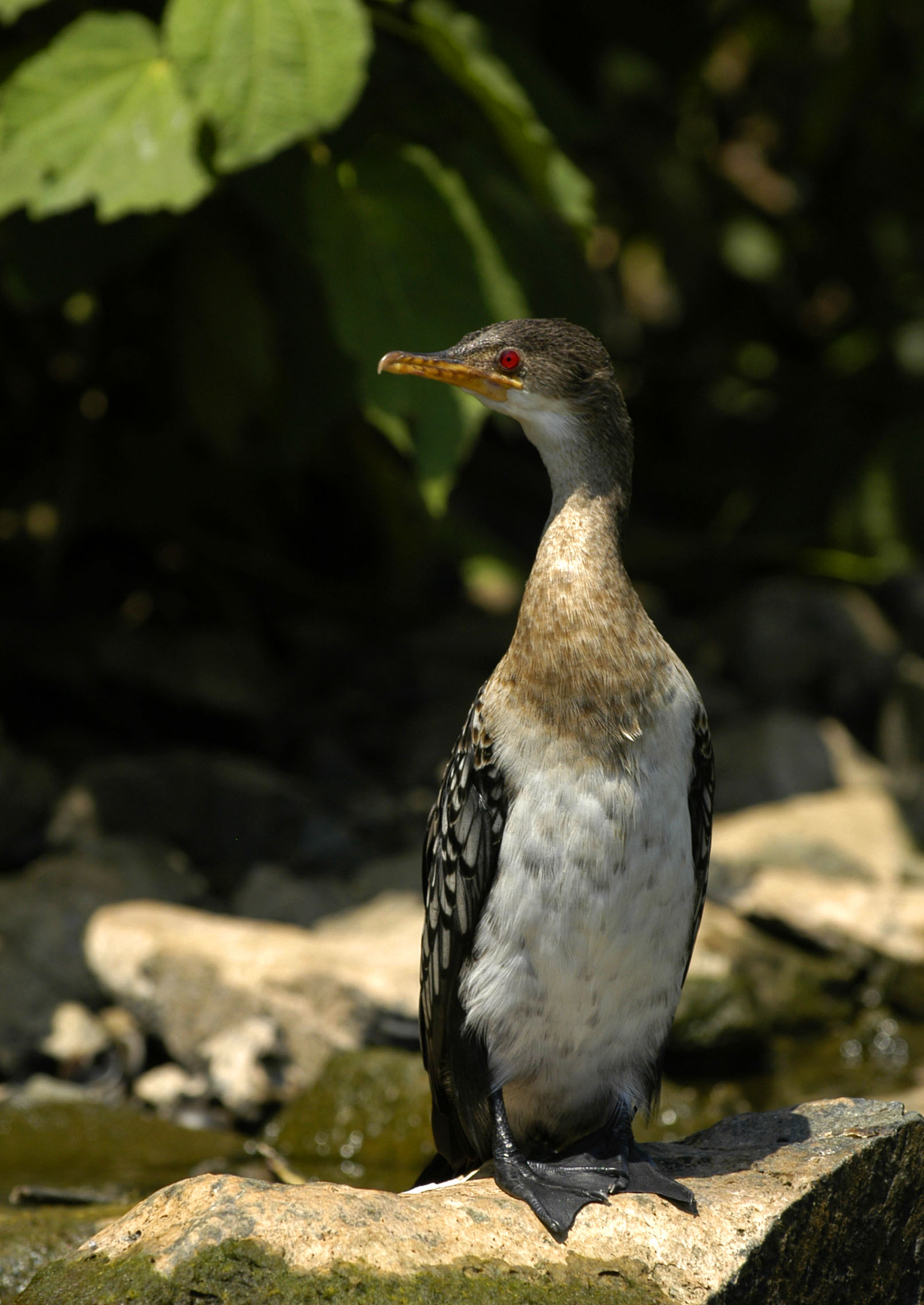 Juvenile Microcarbo africanus at the source of the blue Nile in 2006/9/10